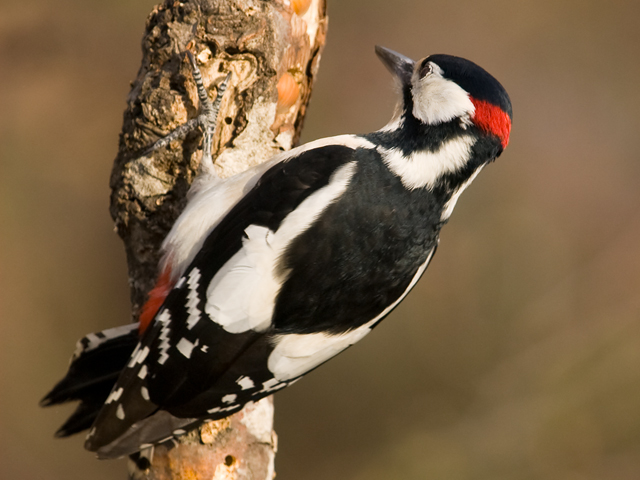 Great spotted woodepecker, male.